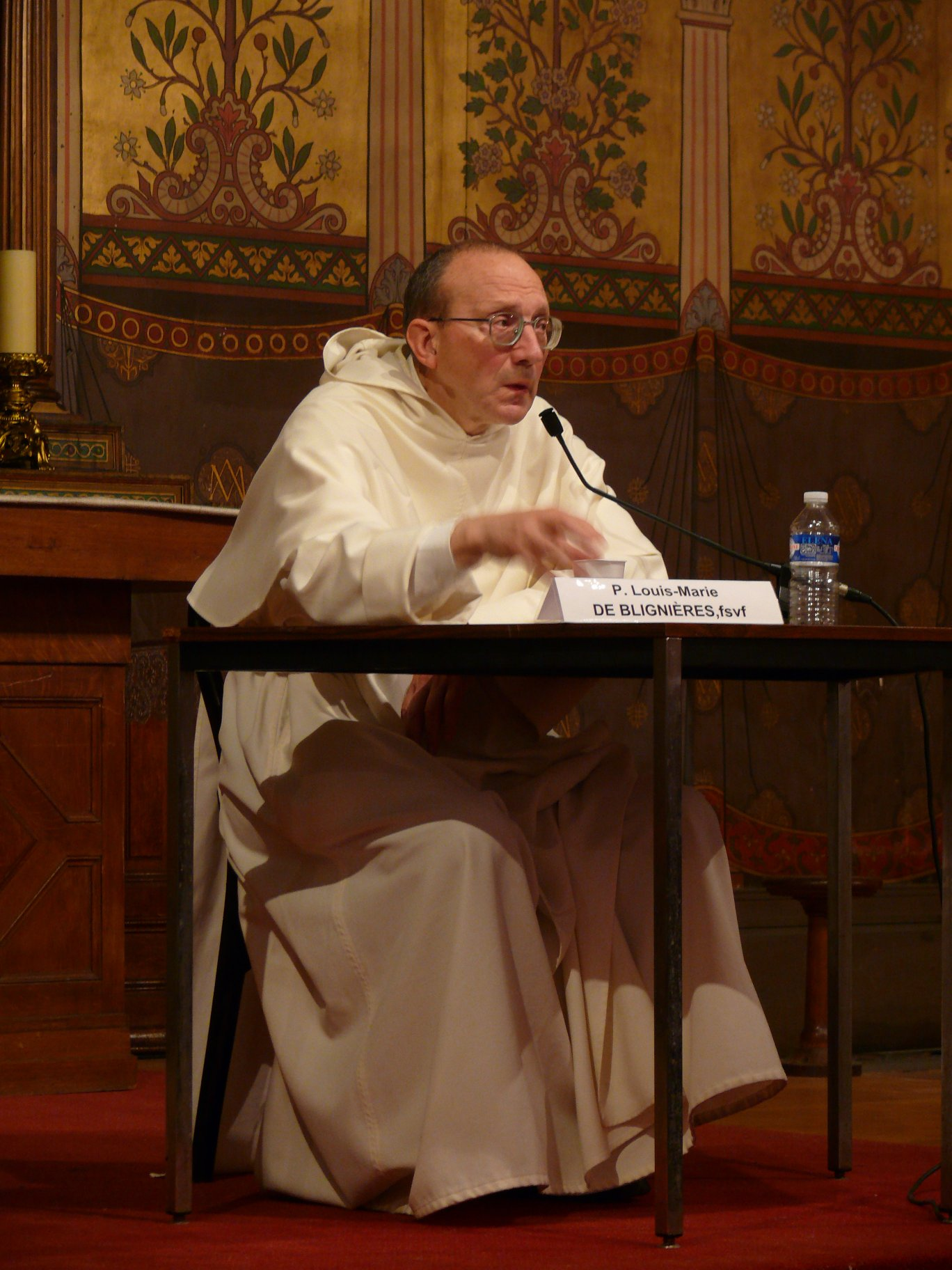 Father Louis-Marie de Blignières in Saint-Augustin's church, in Paris (France).